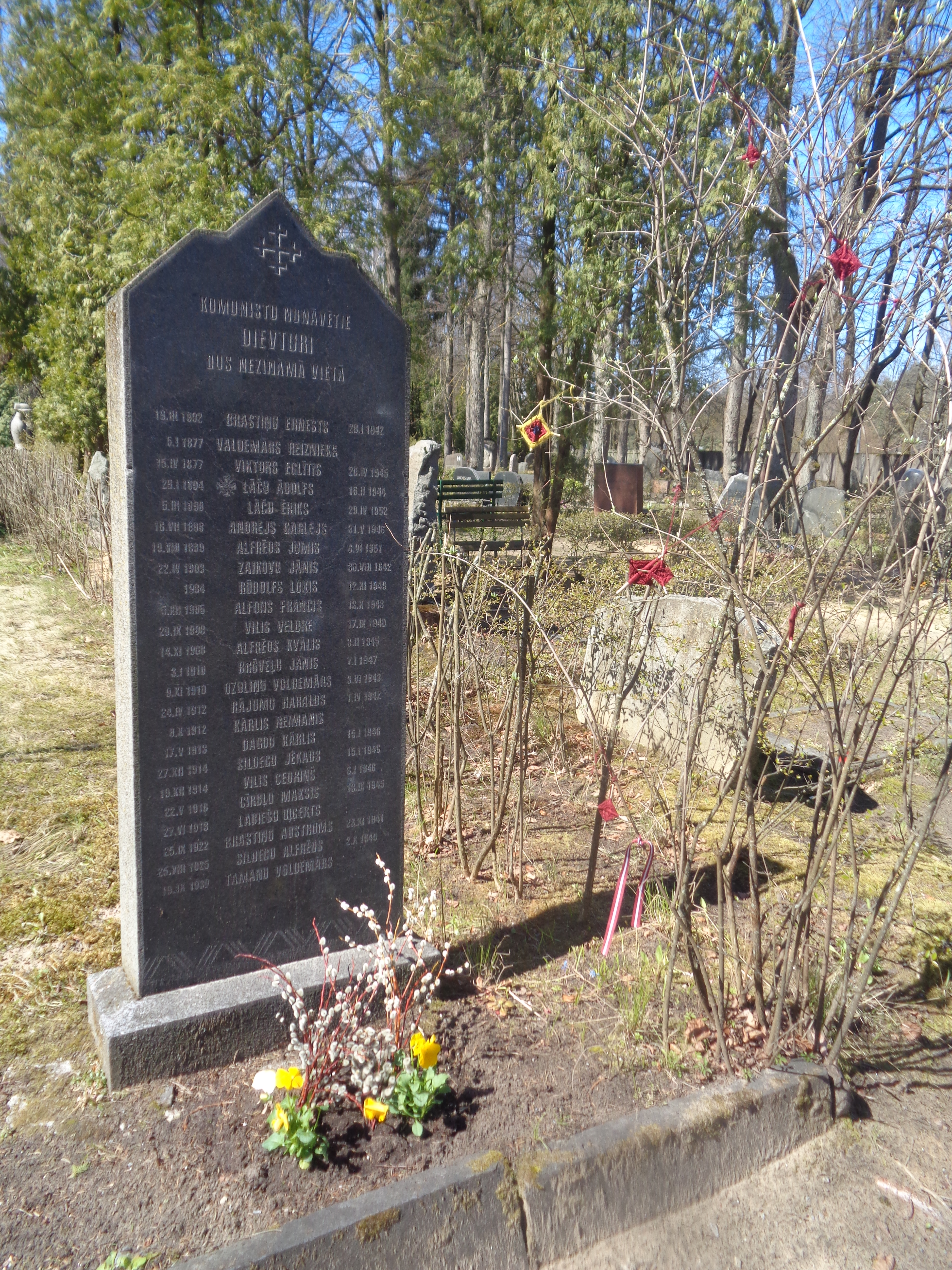 Memorial stone to those Latvian pagans killed by the Soviets 1942-1952, resting at an unknown place (in Latvian: "Komunistu nonāvētie Dievturi dus nezināmā vietā"); situated close to the main portal of Rainis Cemetery, a part of the Forest Cemetery (Meža kapi) of Riga, Latvia.